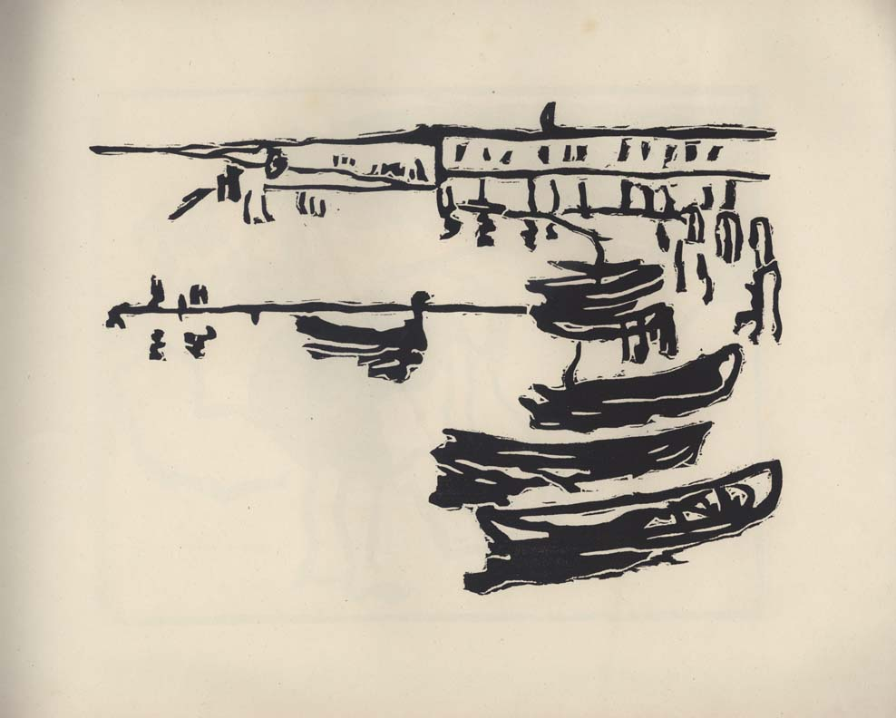 Work of Arthur Segal